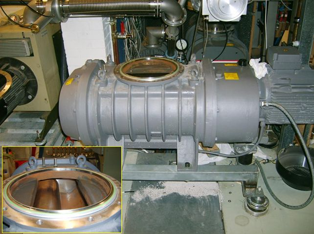 picture of rootsblower (vacuum pump)